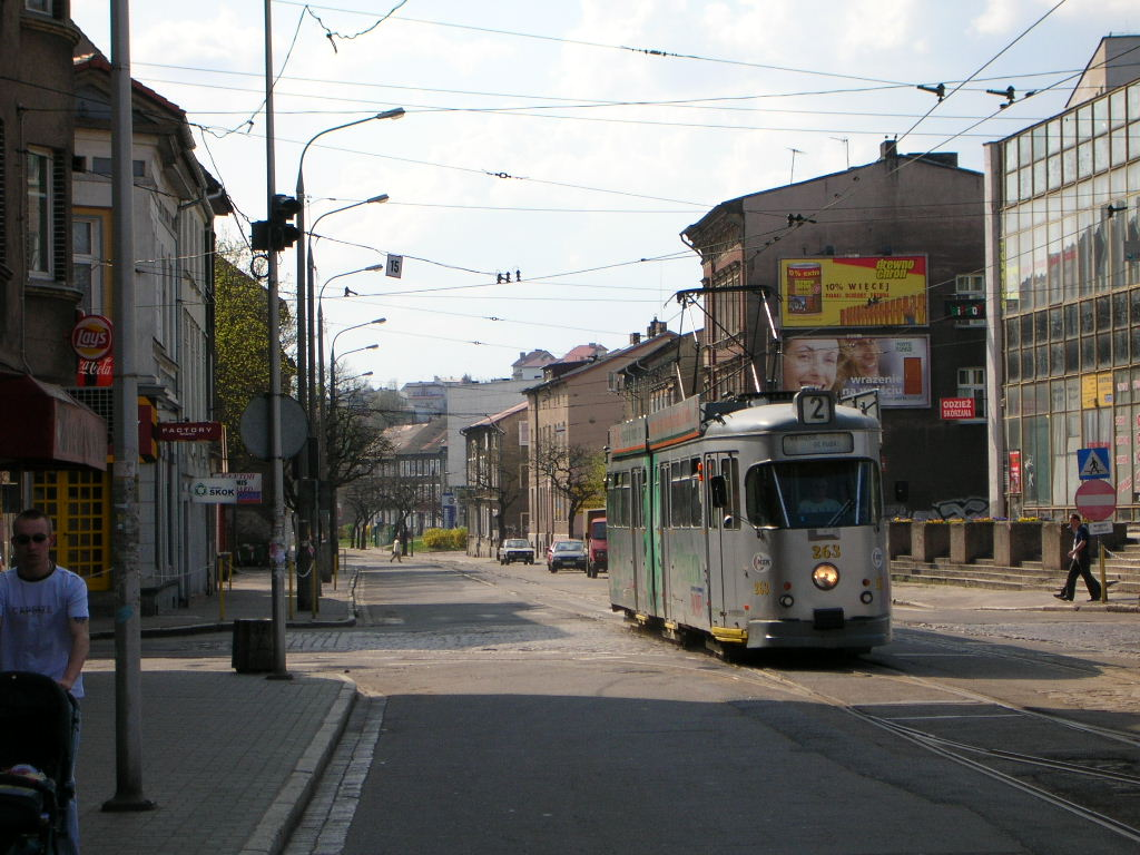 Sikorski street in Gorzów Wielkopolski, Poland.